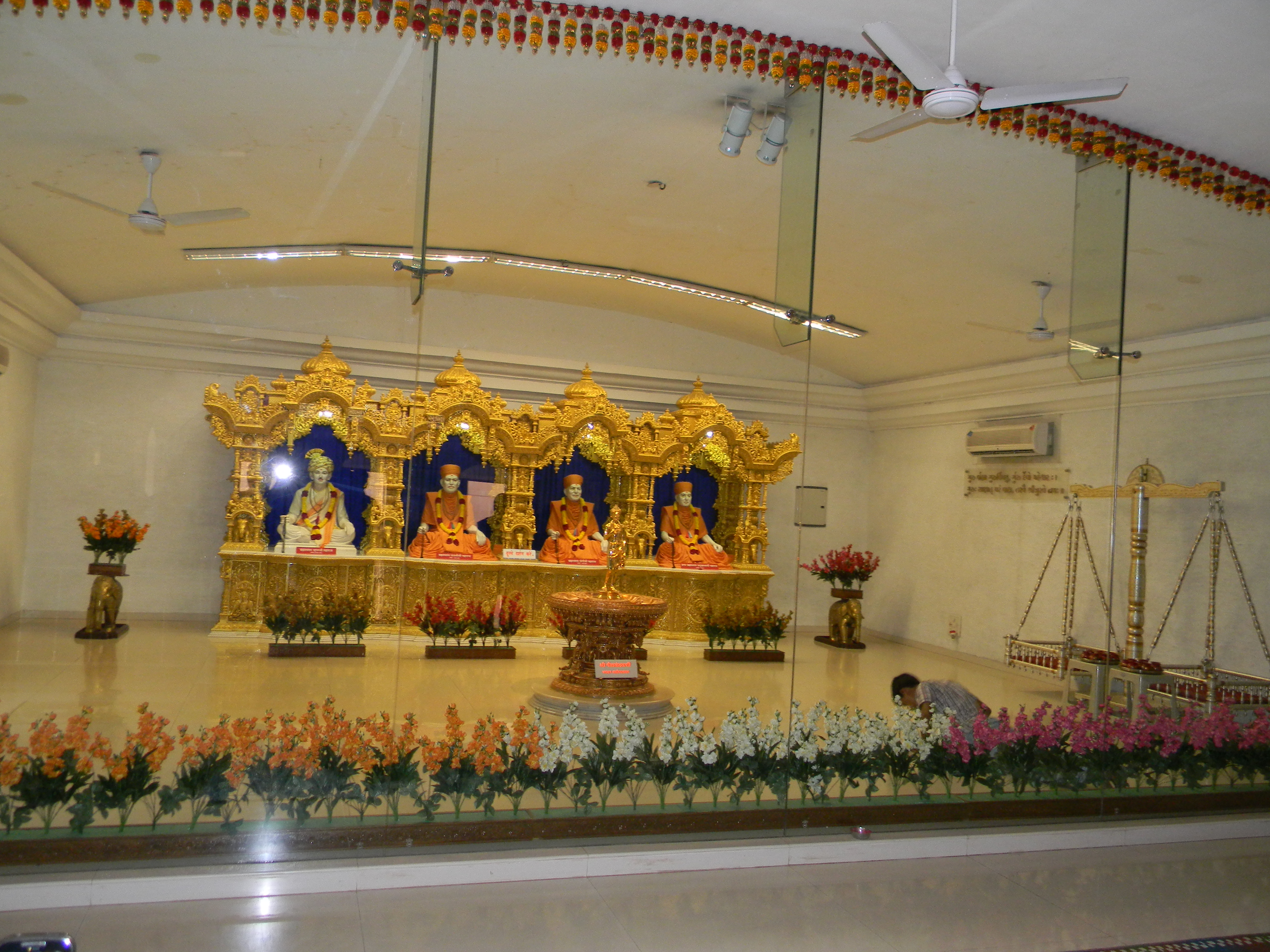 Swaminarayan Temple.Tithal,Valsad, Gujarat This media file is uploaded with Odia loves Wikipedia